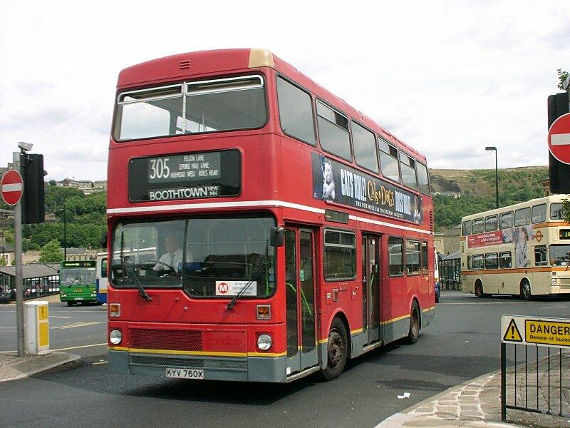 Halifax Joint Committee KYV760X. seen leaving Halifax Bus Station.